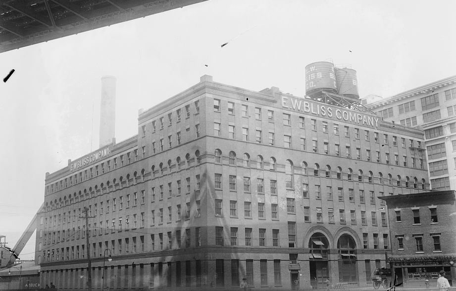 EW Bliss Company Torpedo Works published by Bain News Service ca. 1910-1915. Part of the Bain Collection at the Library of Congress Prints and Photographs Division. Looking southwest from Adams Street across Plymouth Street.